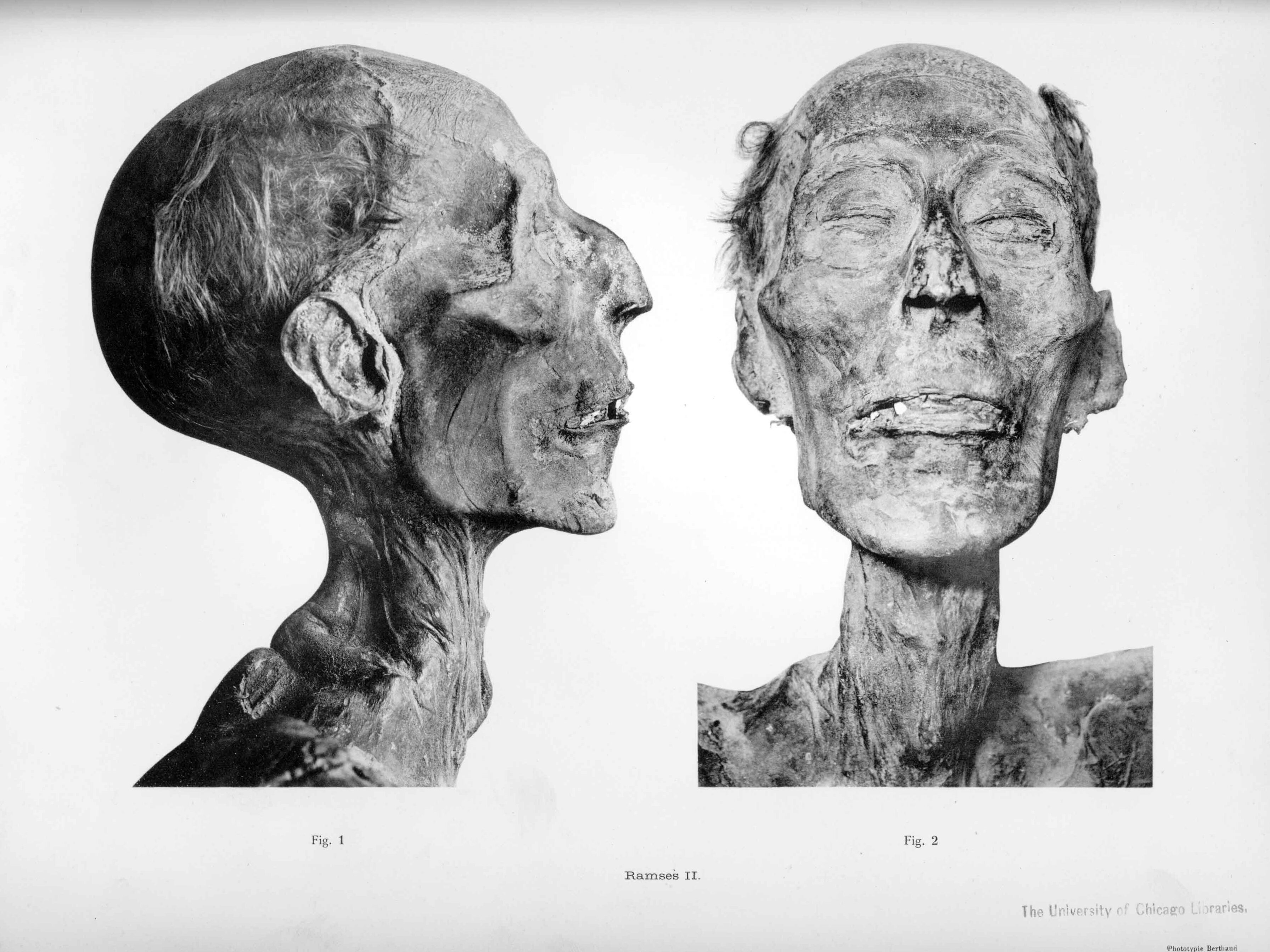 Details of mummy of the pharaoh Ramesses II. Cairo Museum.